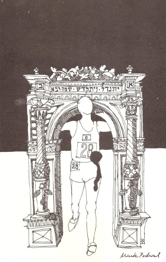 This work was created by American artist Mark Podwal in memory of Israeli athletes taking part in Munich 1972 Olympic Games who were taken hostages and finally killed by Palestinian Black September terrorists. The drawing was first published in the New York Times in 1972.